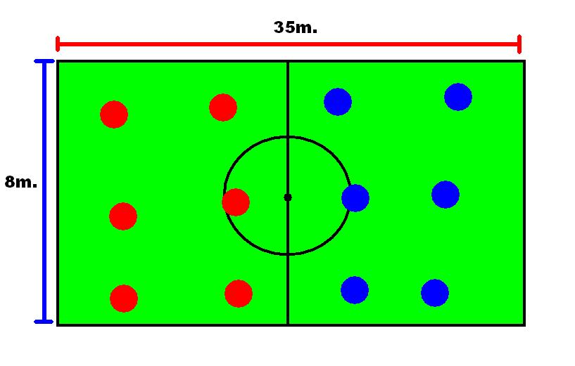 Purepecha Ball´s Field